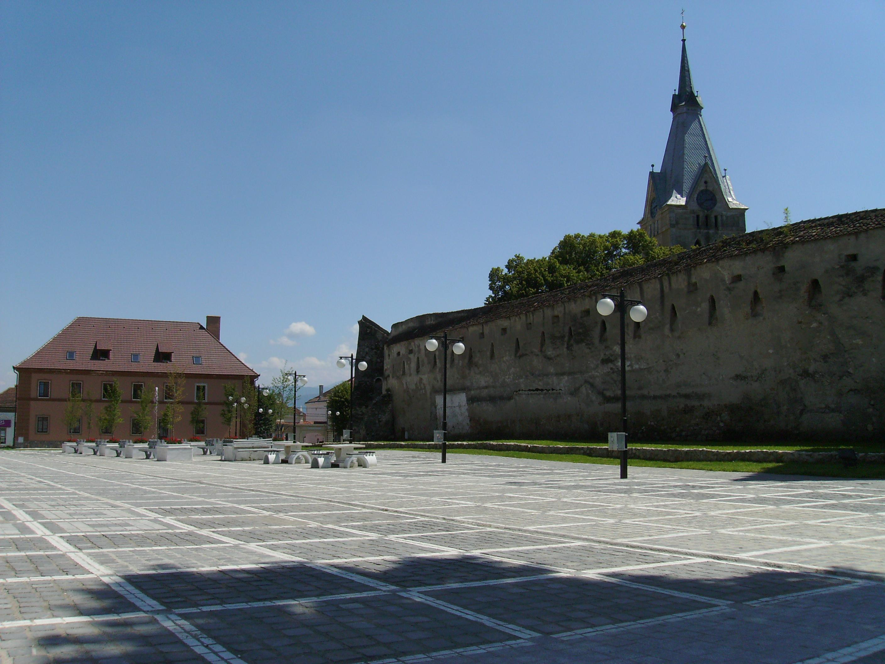 Codlea, Transylvania, Romania. Codlea is a small town in south-eastern Transylvania. On the right side of this image you can see its fortified church. The downtown preserves almost entirely its medieval architecture. South-East Transylvania boasts Europe's densest system of well preserved medieval fortifications. Virtually every village of this region has a fortified church in good shape, let alone ruined strongholds, forts and fortified castles.